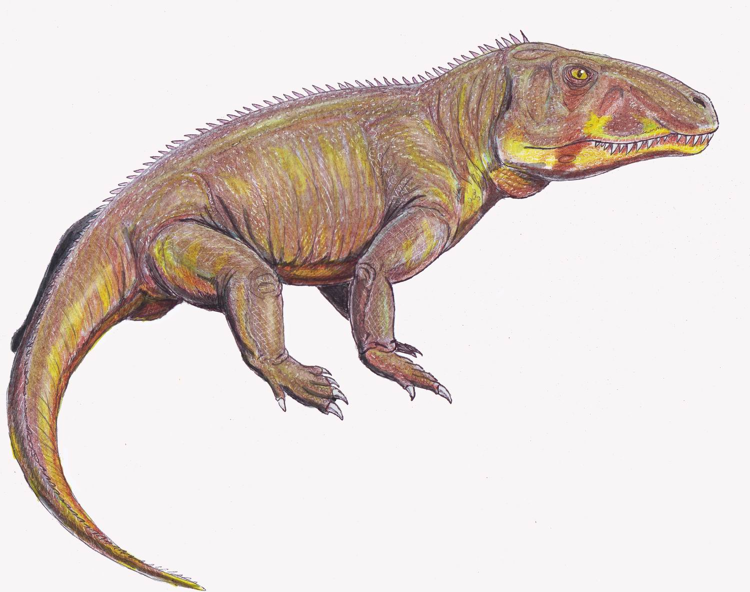 Shanshisuchus shansisuchus